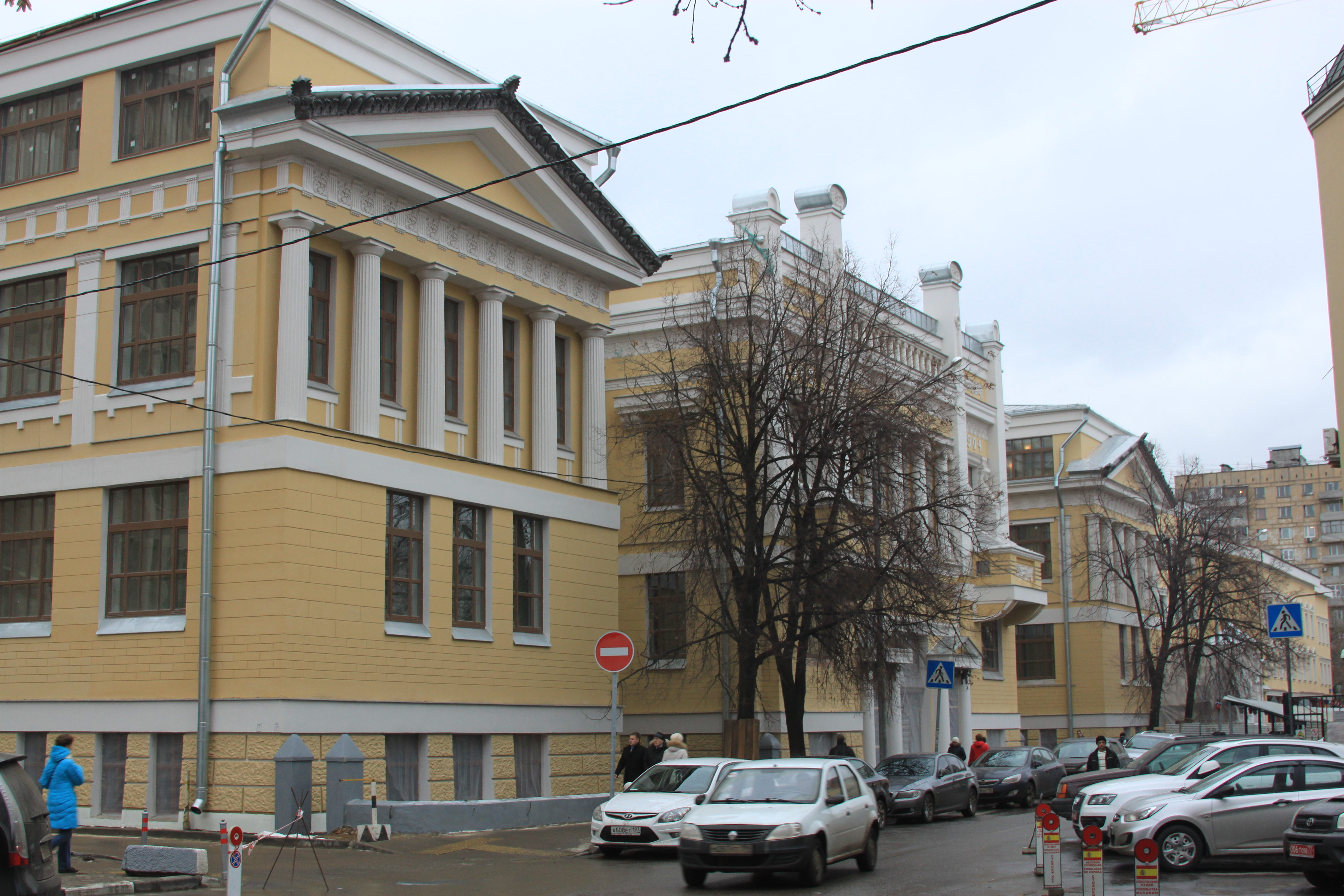 Russia, Moscow, Plekhanov Russian University of Economics, Stremyanny pereulok